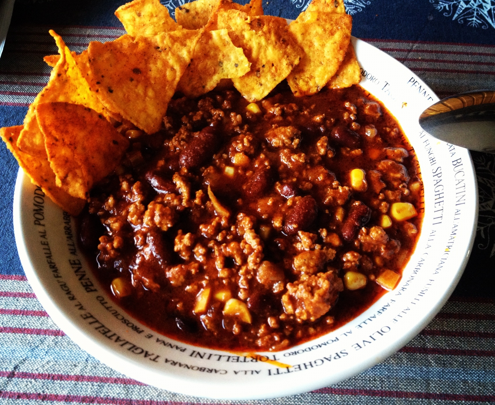 Home made chili con carne with some tortilla chips...